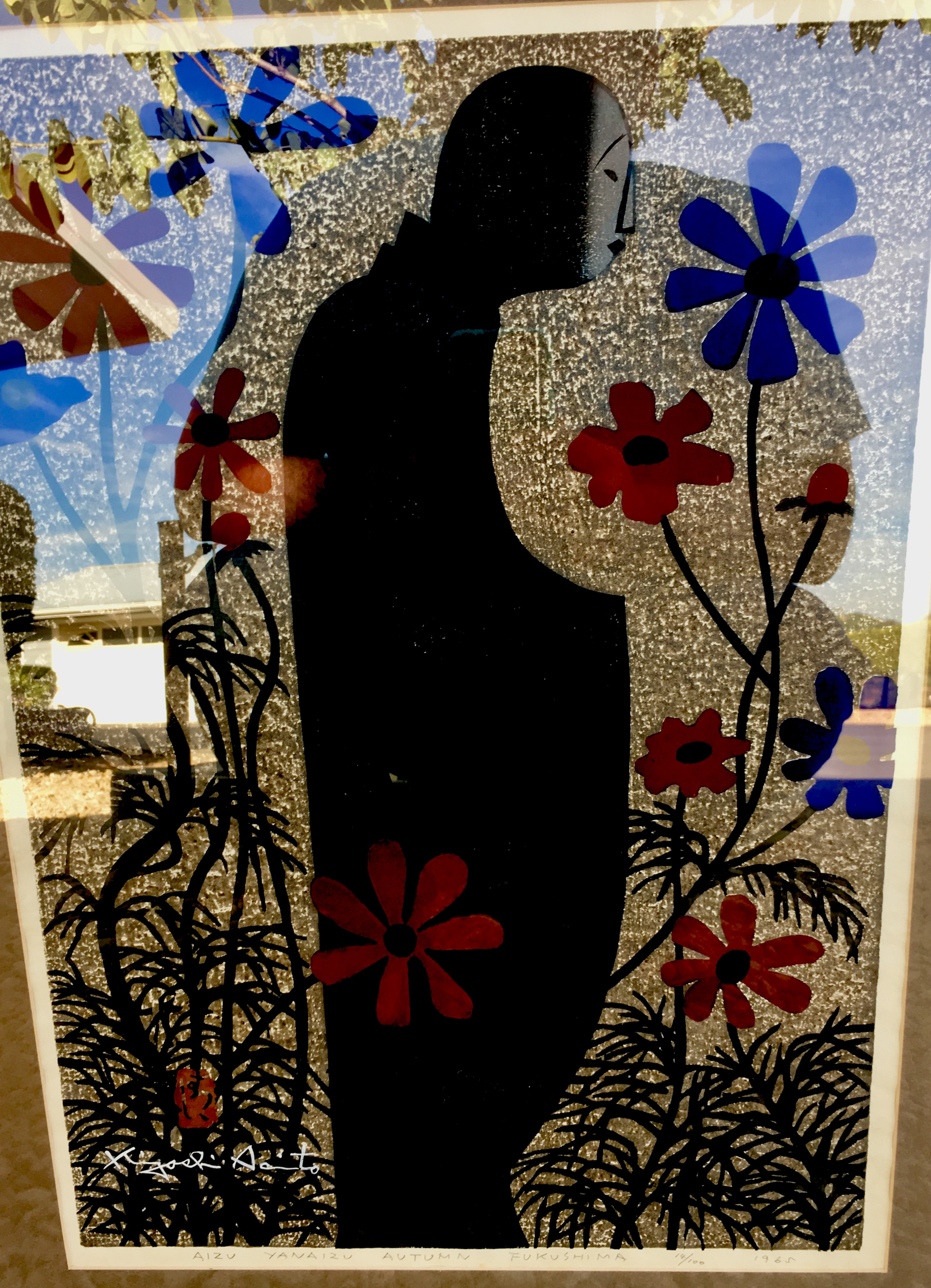 Kiyoshi Saito Titled Autumn -rare print 14/100